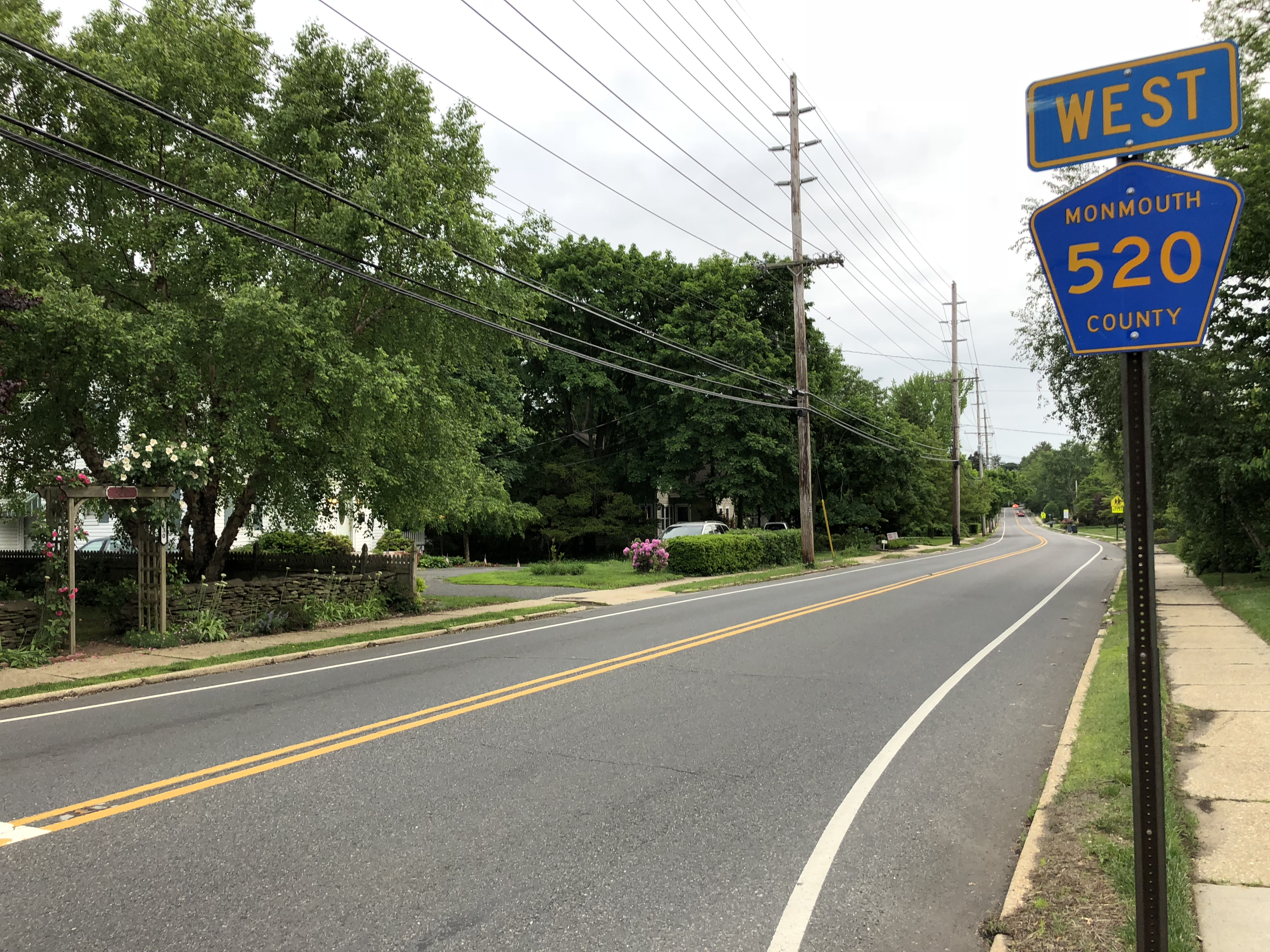 View west along Monmouth County Route 520 (Rumson Road) at Monmouth County Route 13B (Prospect Avenue) in Little Silver, Monmouth County, New Jersey